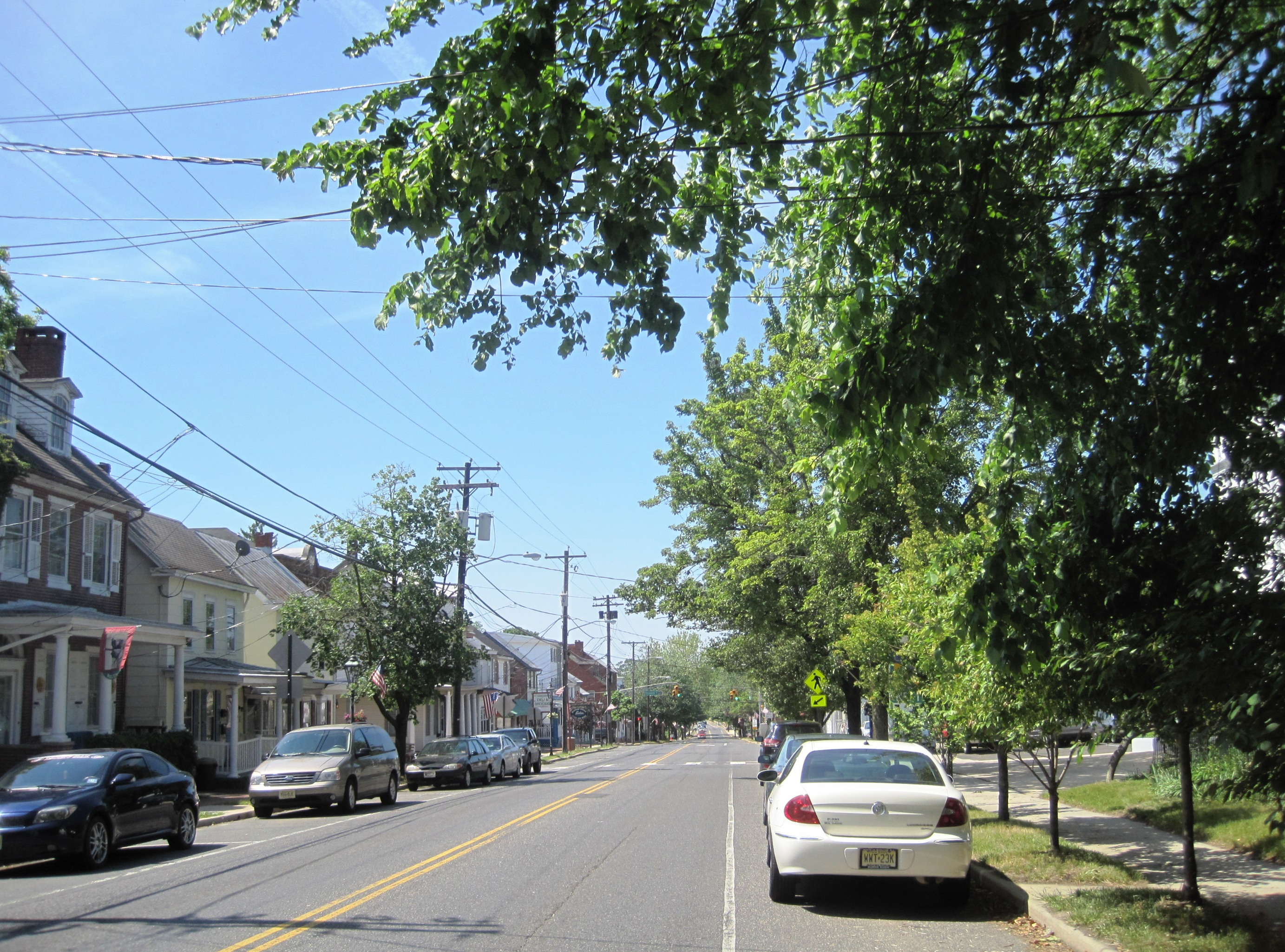 Photo of the center of Pemberton borough, New Jersey. Photo taken on westbound Hanover Street (County Route 616) approaching Elizabeth Avenue (CR 687).